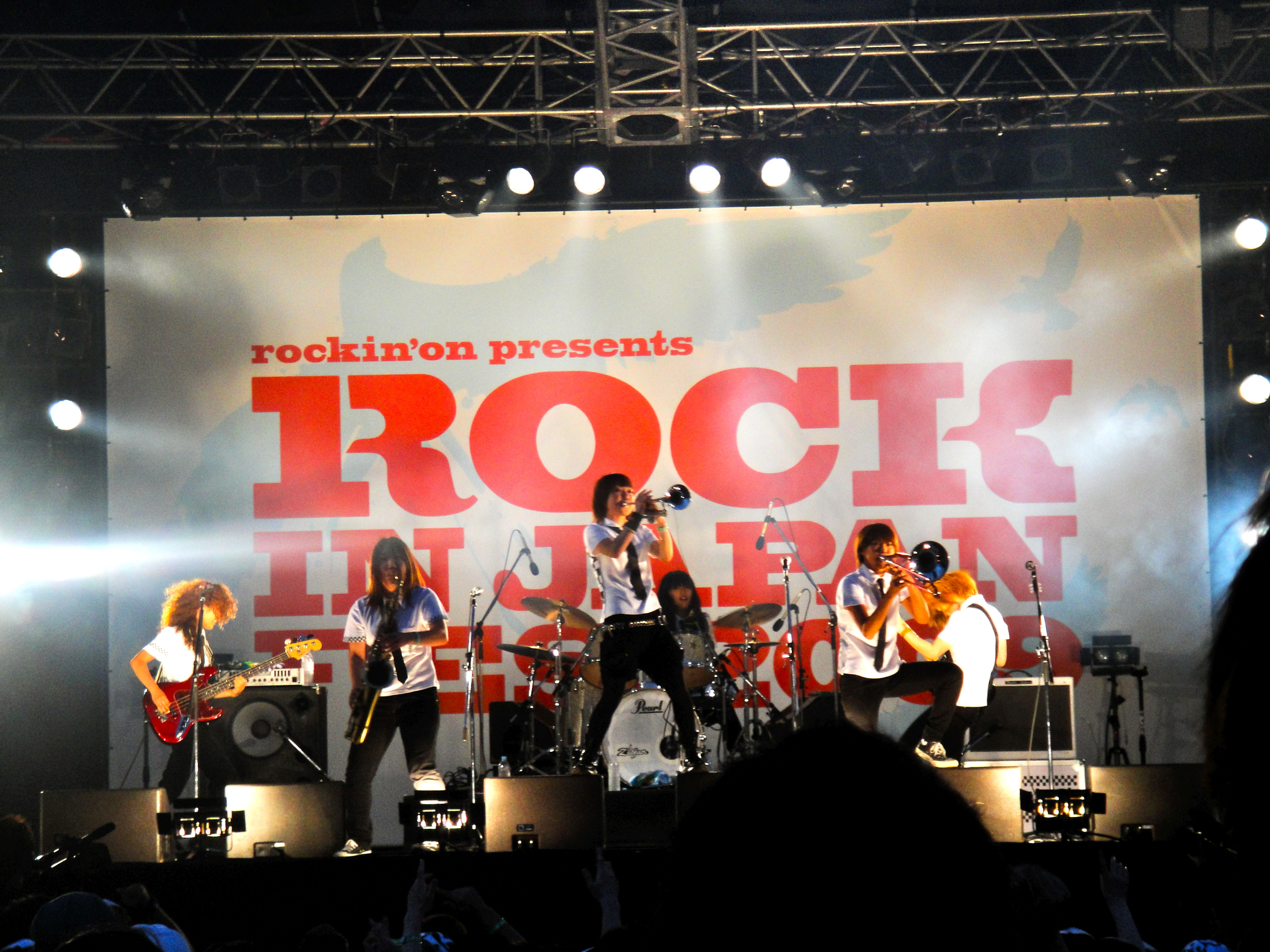 OreSkaBand at the Rock in Japan Festival 2009.